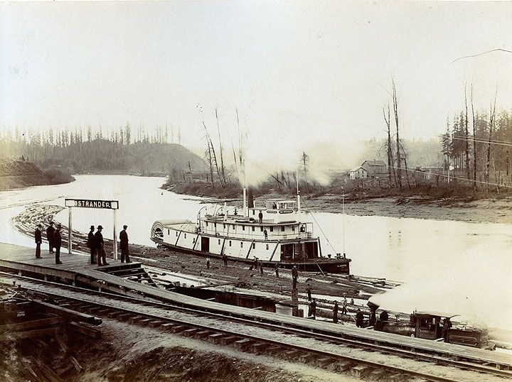 Steamer No Wonder at Ostrander, Washington (on the Cowlitz River) circa 1895.